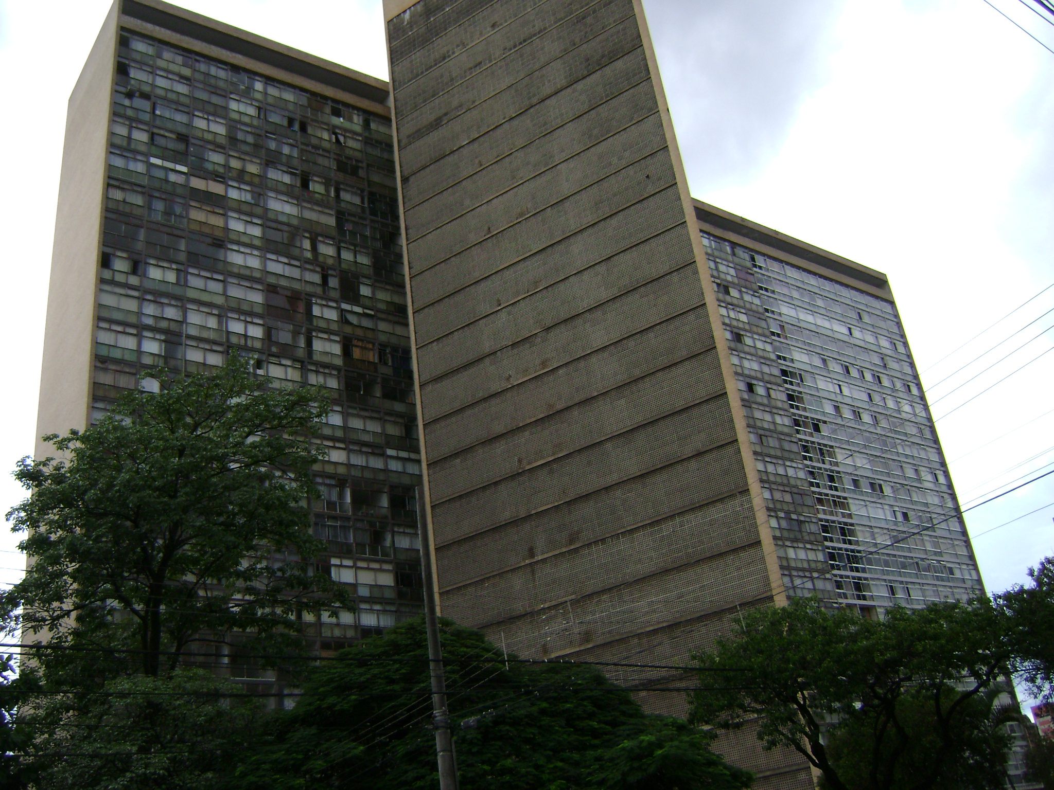 Vista do edifício JK, em Belo Horizonte.